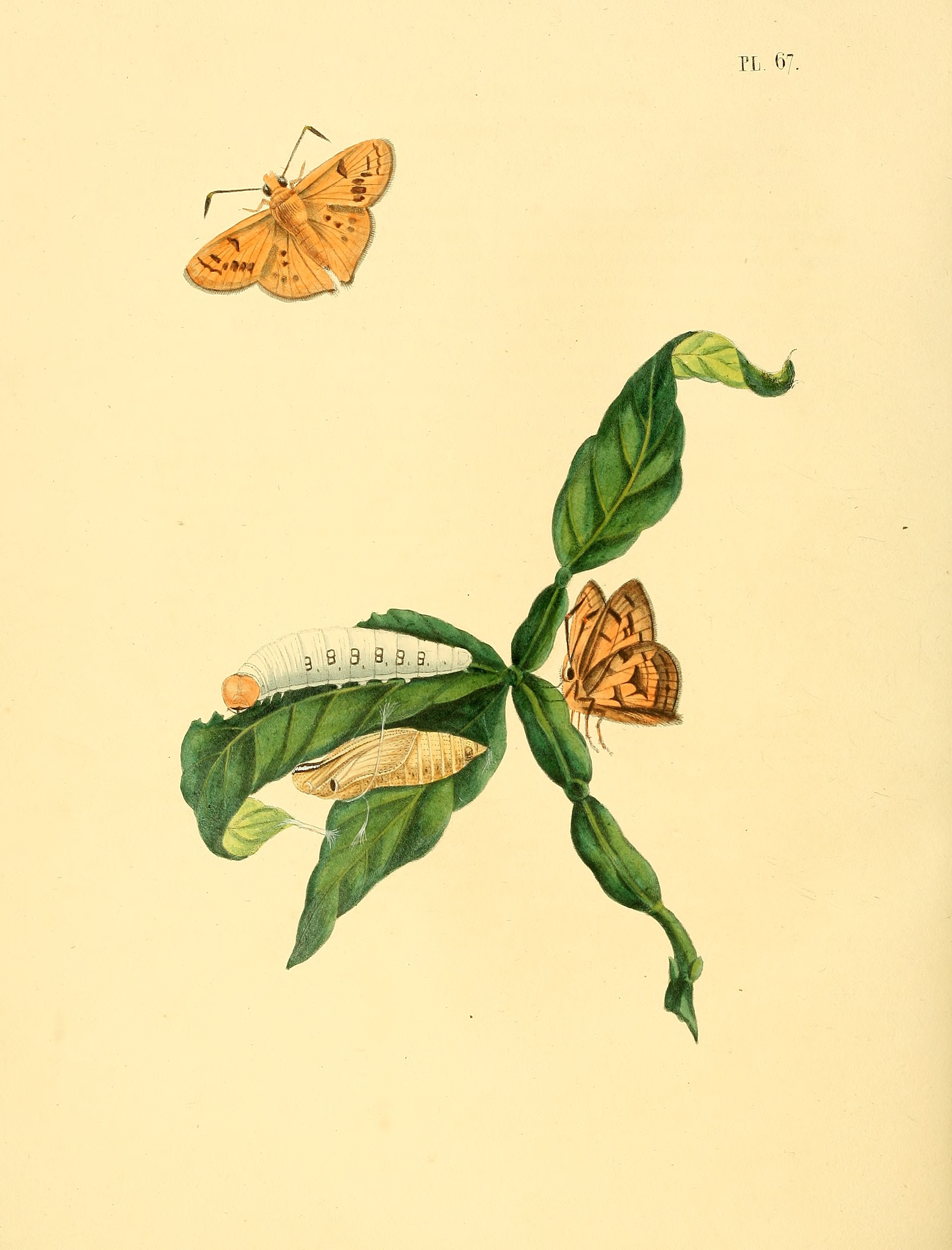 Illustration of: Bungalotis quadratum (as syn. Papilio quadratum)